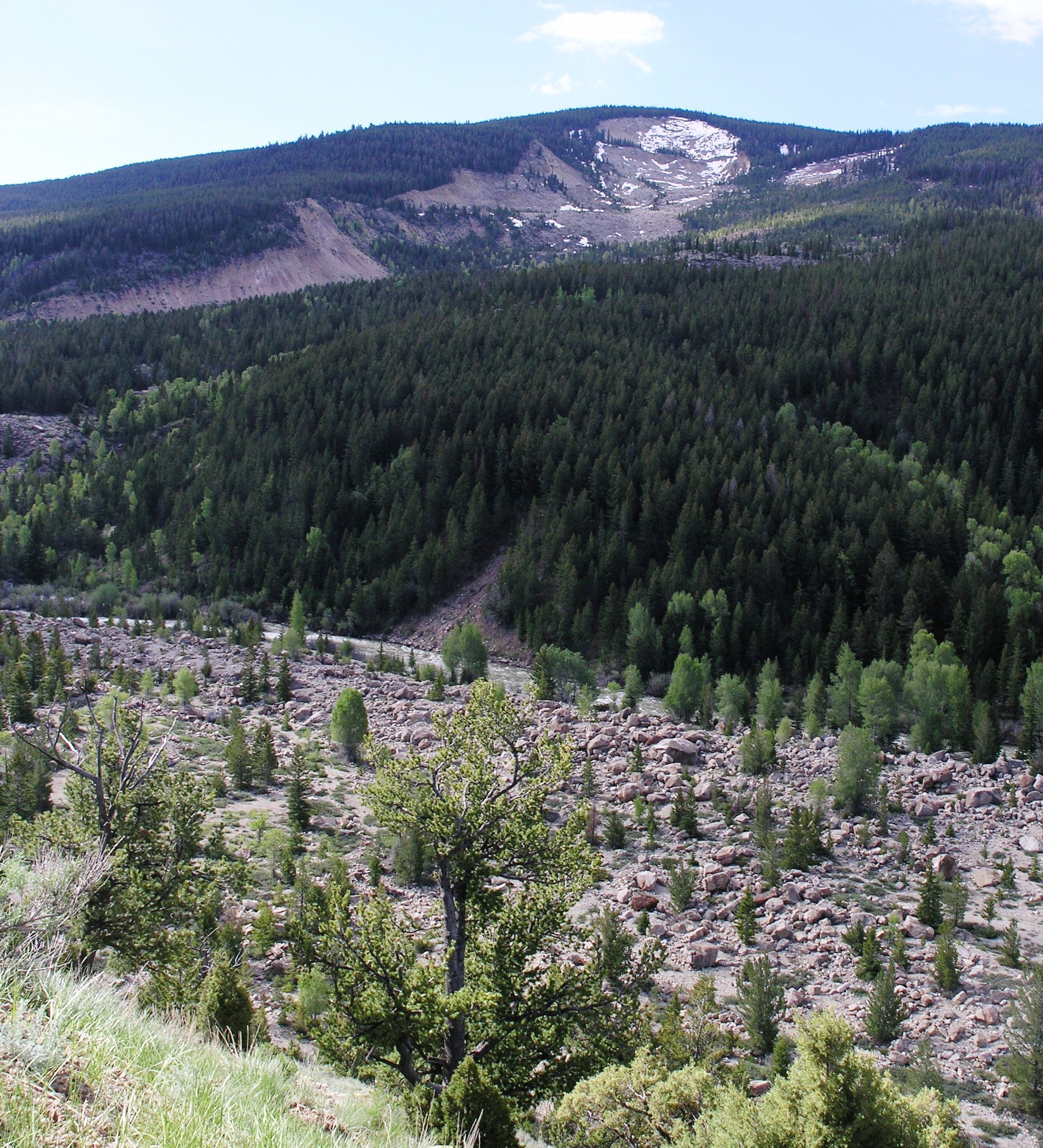 Photo in Bridger-Teton National Forest, Wyoming.